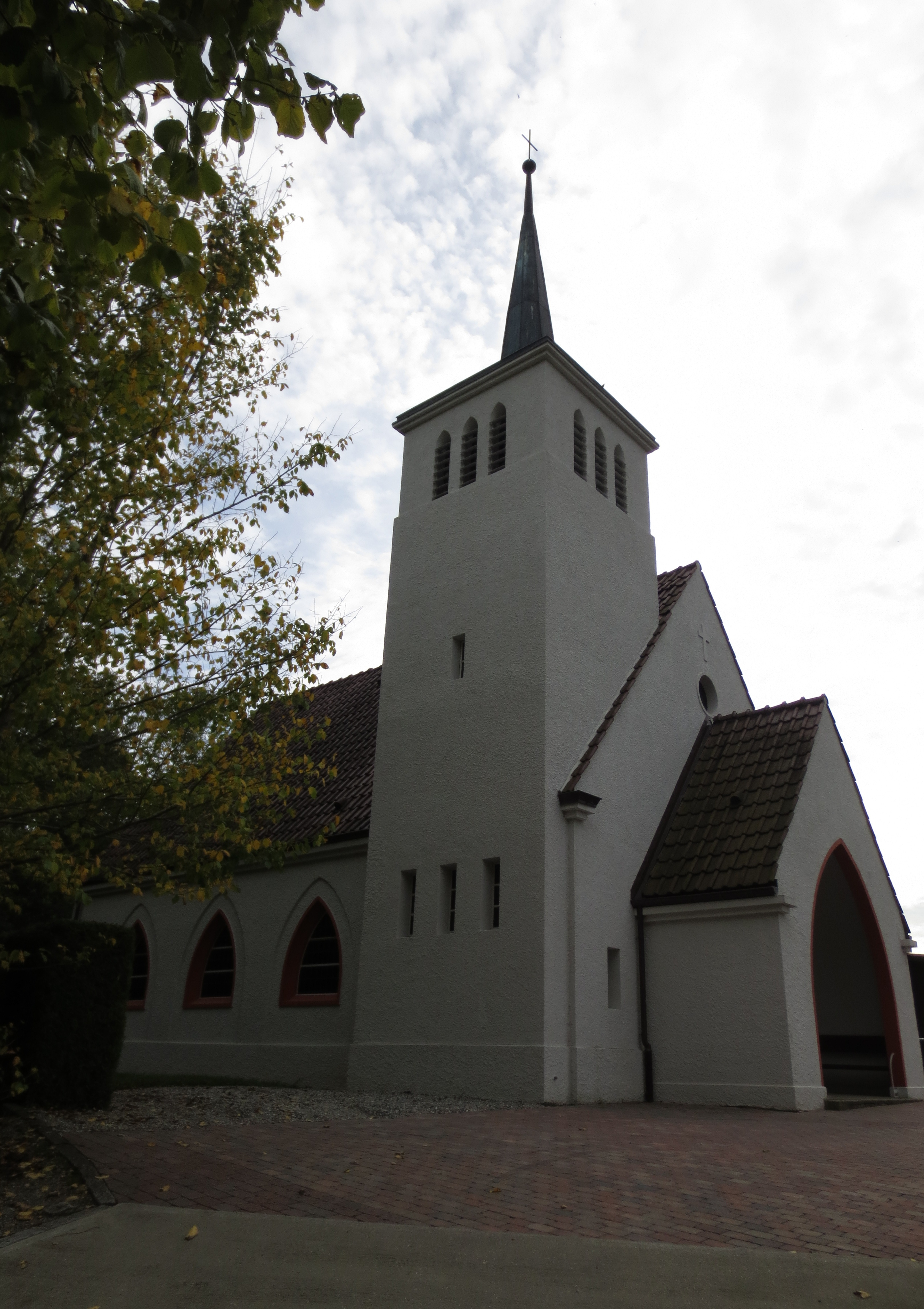 Henniez church, Canton of Vaud, Switzerland